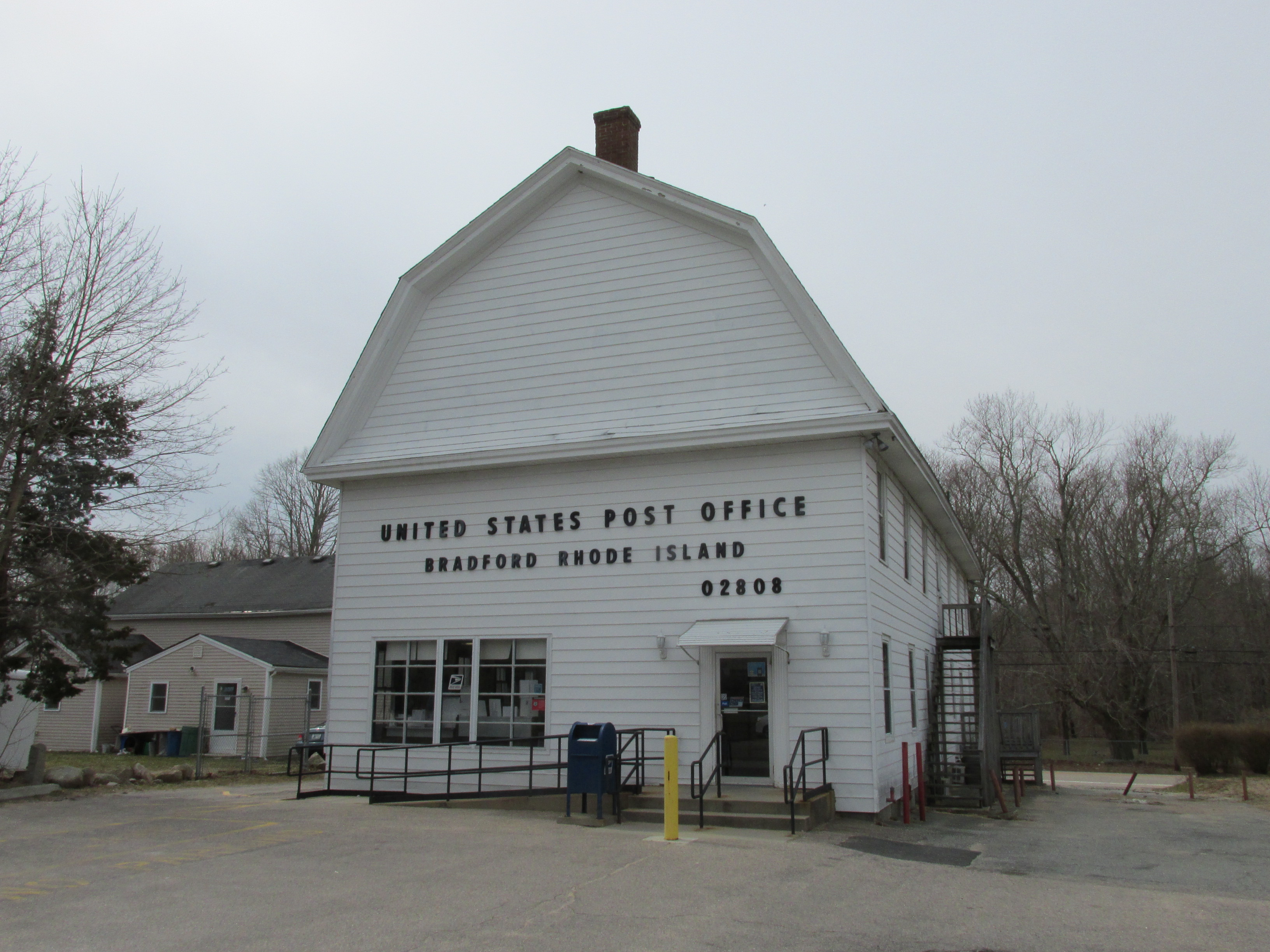 Post Office, Bradford Rhode Island